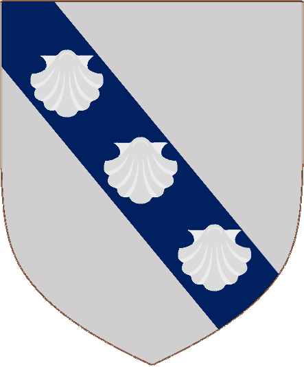 Shield of arms of The Earl of Bandon